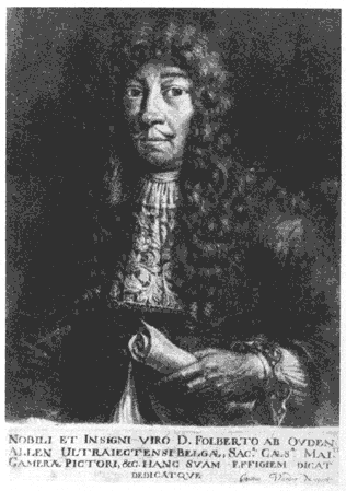 Portrait of Folbert van Alten-Allen by Justus van den Nypoort